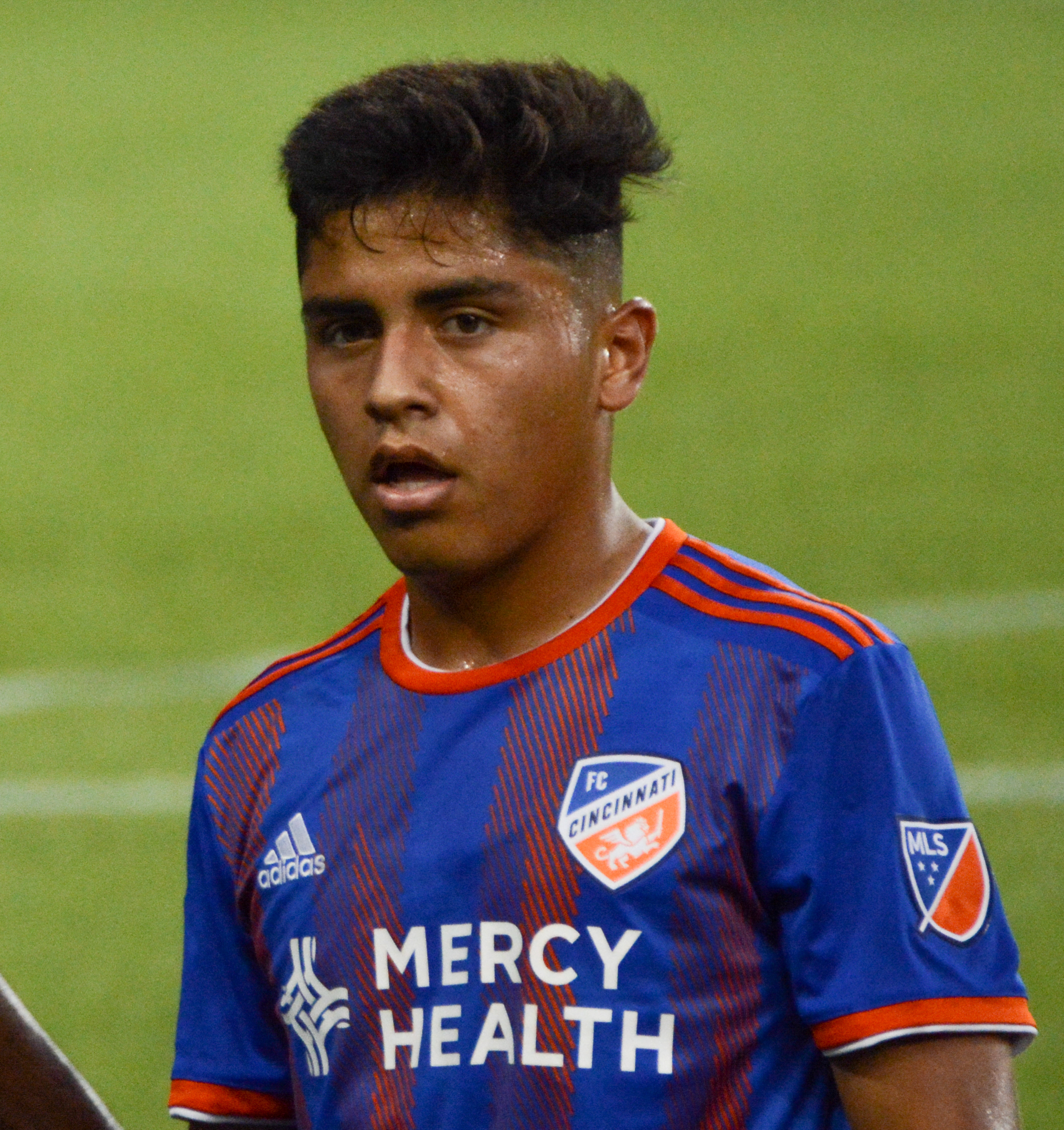 Cristian Cásseres Jr., Roland Lamah, and Frankie Amaya. Taken during an MLS match between New York Red Bulls and FC Cincinnati at Nippert Stadium in Cincinnati on May 25, 2019.